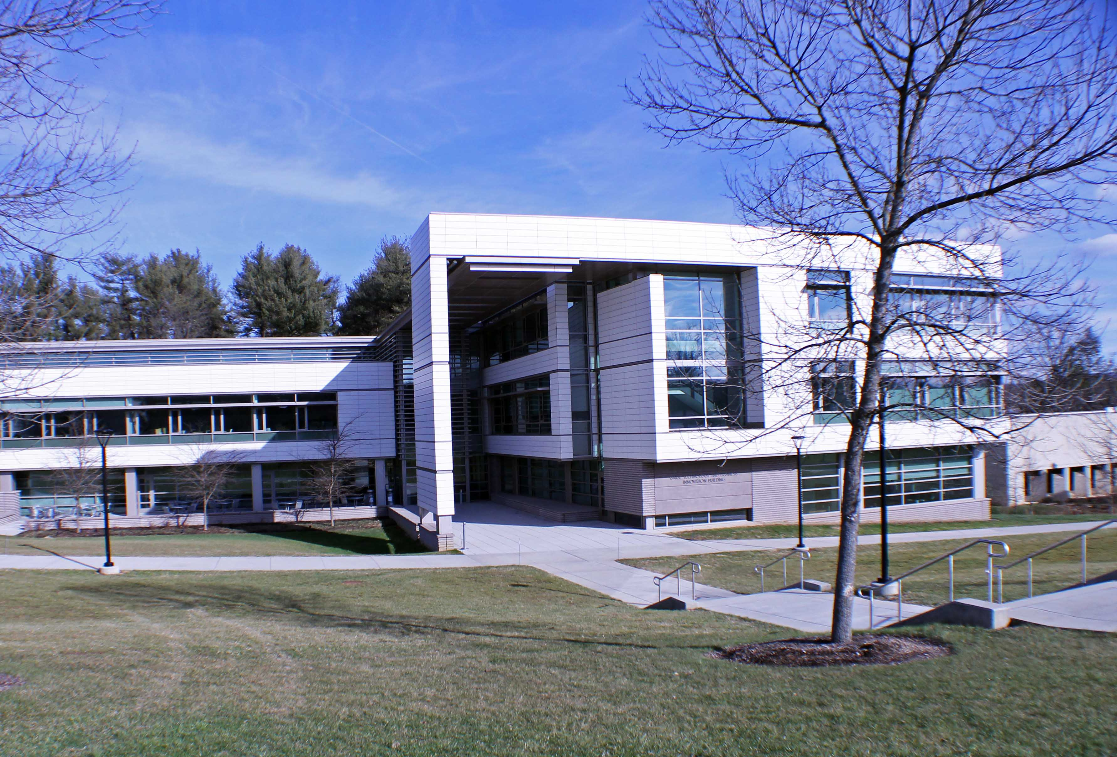 A view of the latest building at Penn State Berks, the Gaige Technology and Business Innovation Building